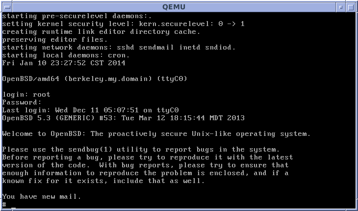 OpenBSD 5.3 console login and welcome message. Running in a QEMU VM.